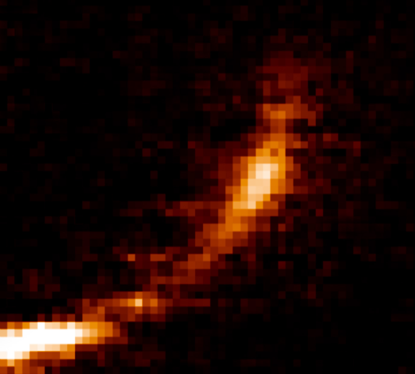 New observations from ESO’s Very Large Telescope show how a gas cloud now passing close to the supermassive black hole at the centre of the galaxy is being ripped apart. The horizontal axis shows the extent of the cloud along its orbit and the vertical axis shows the velocities of different parts of the cloud. The cloud is now dramatically stretched out and the velocity of the front is several million km/h different from that of the tail.